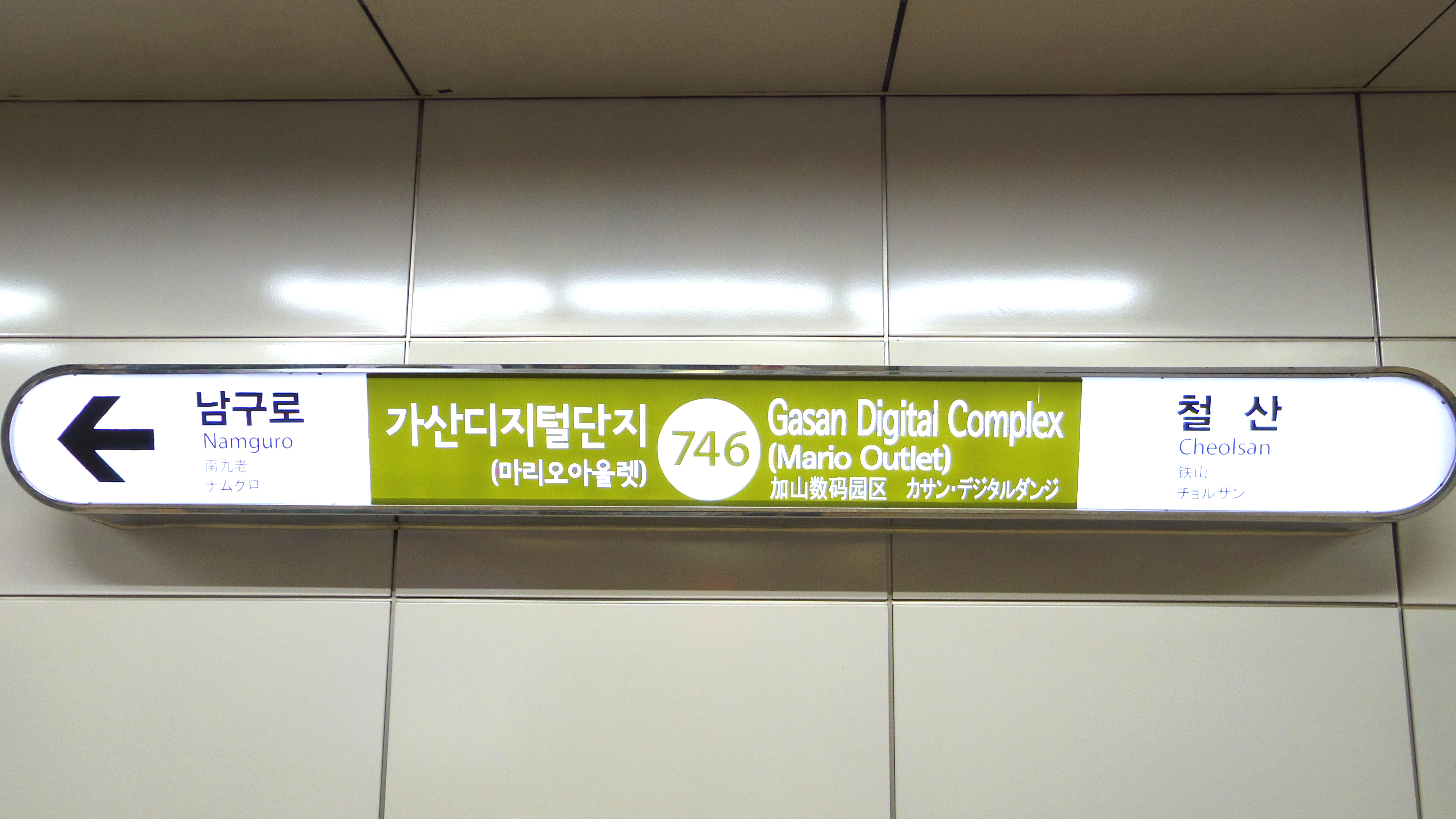 A sign of Gasan Digital Complex Station on Seoul Subway Line 7